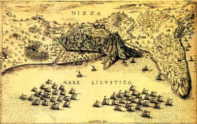 The Siege of Nice in 1543